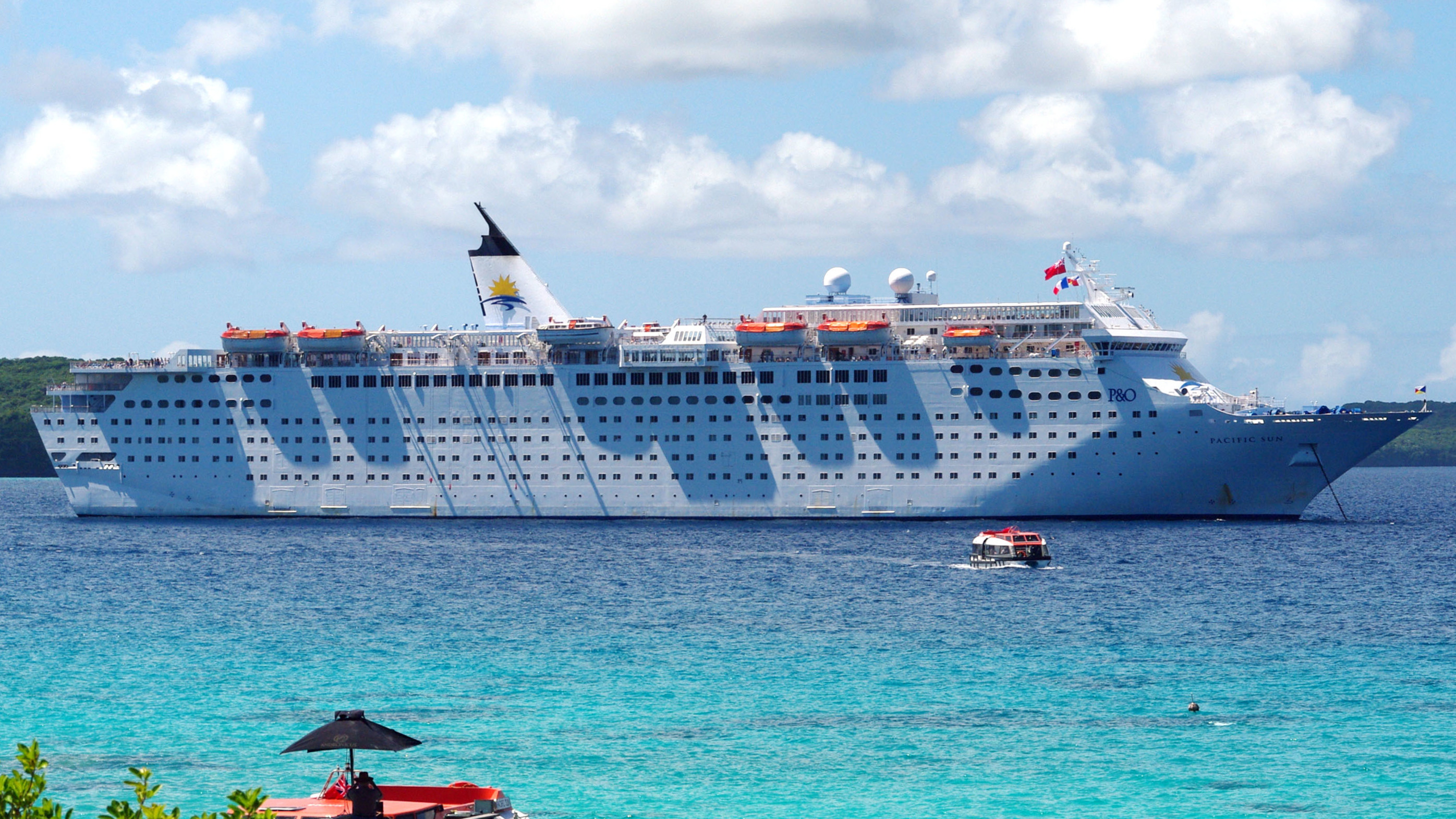 The P&O cruise ship "Pacific Sun" in the Baie du Santal, Easo, Lifou, New Caledonia